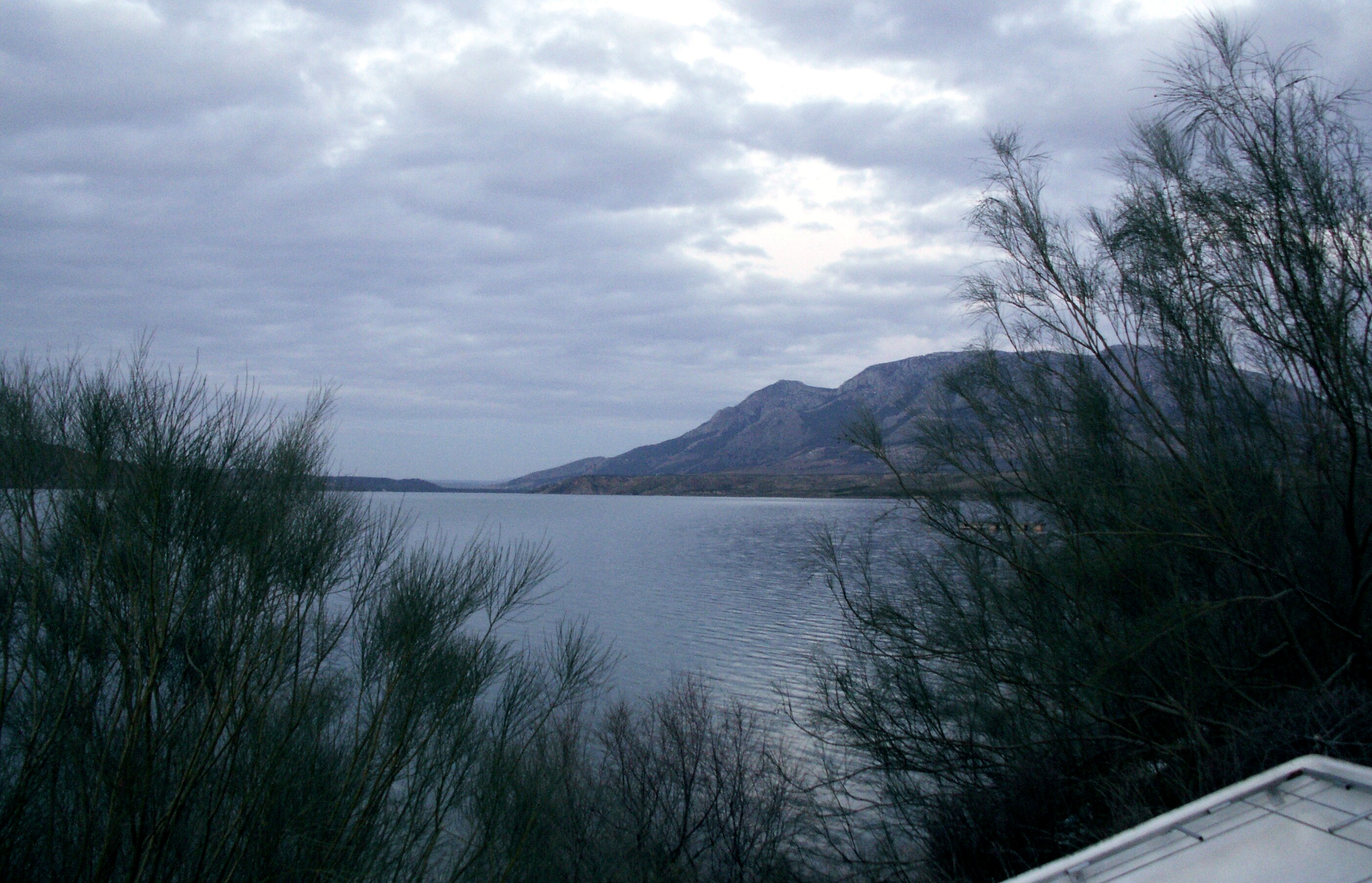 Negratin Lake in Zújar, Spain